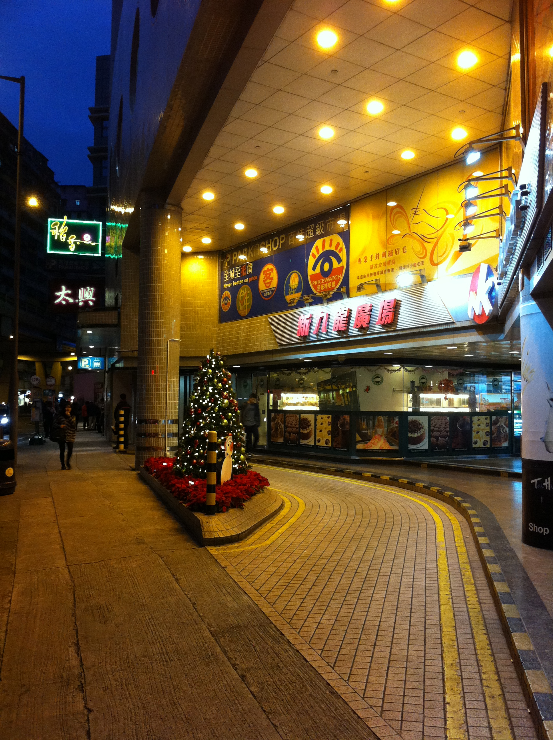 新九龍廣場, 大角咀道38號, Tai Kok Tsui Road, Hong Kong